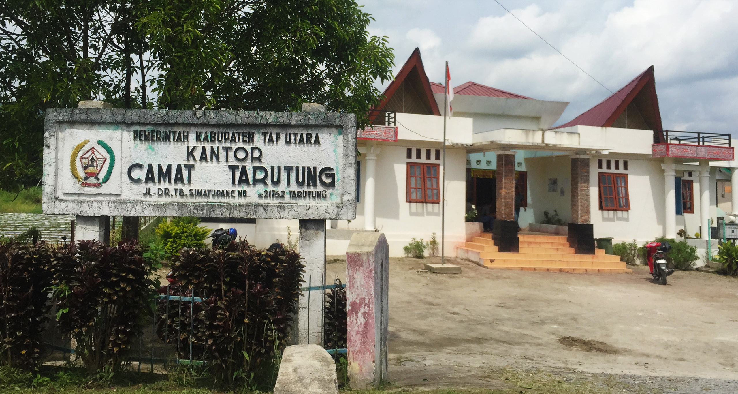 Office of Tarutung, Tapanuli Utara